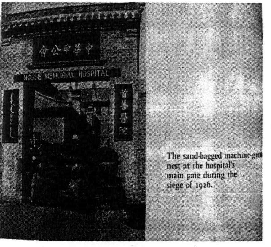 Mosse Memorial Hospital, Datong, China. This photo was taken during the siege 1926.